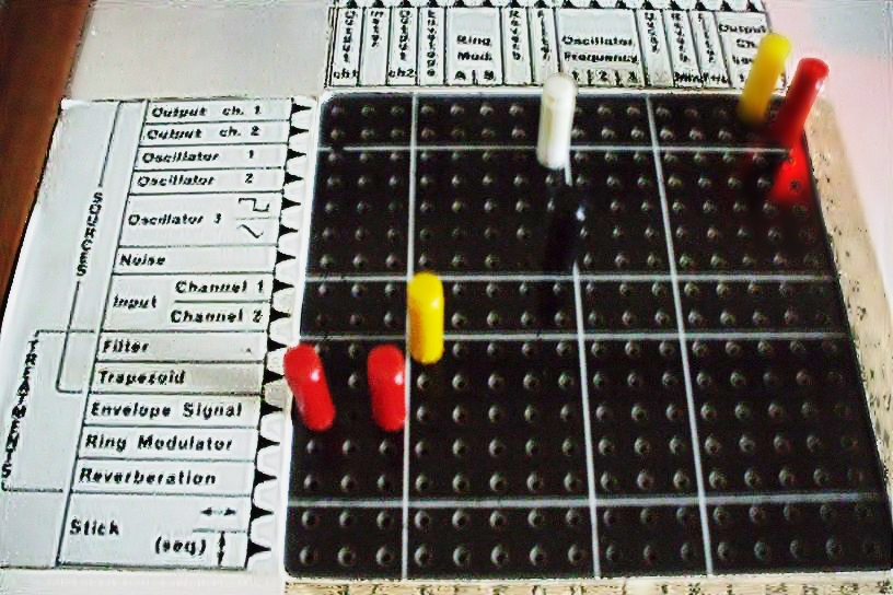 The routing matrix on the EMS VCS 3 synthesizer, taken at Ealing Film Studios